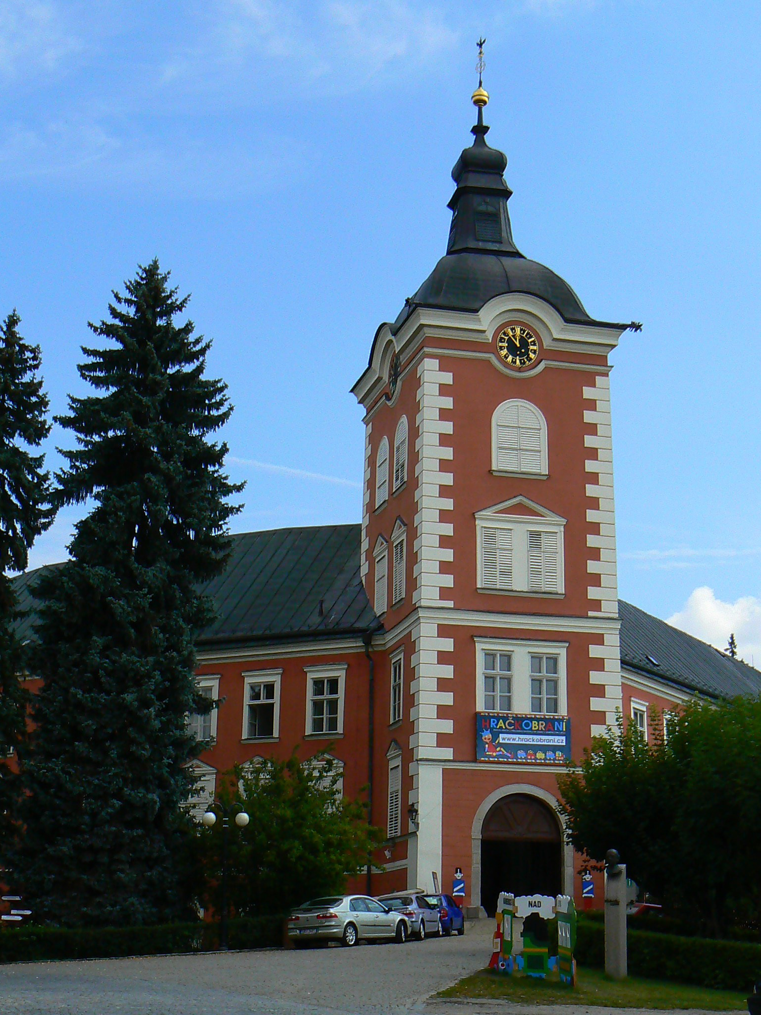 Chateau in Kamenice nad Lipou, Czech Republic - front wall